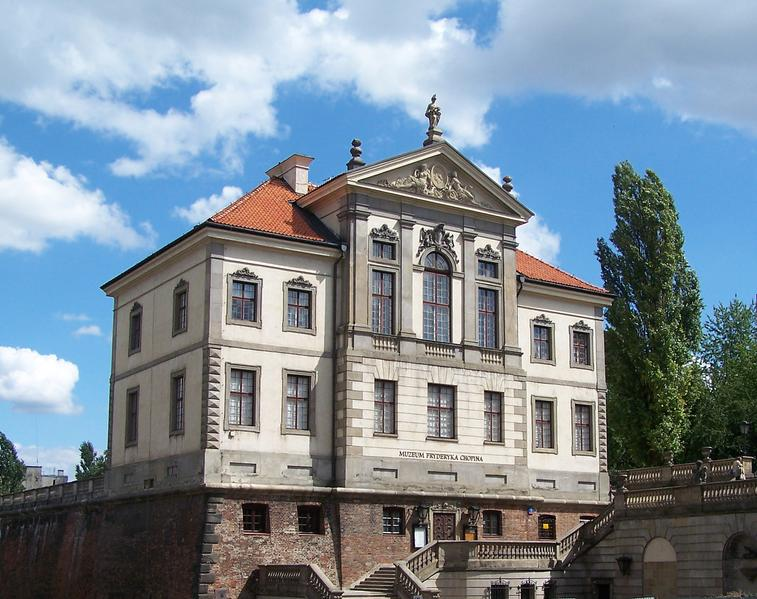 Zamek Ostrogskich (Ostrogski Castle) in Warsaw, 17th century. Architect - Tylman van Gameren.